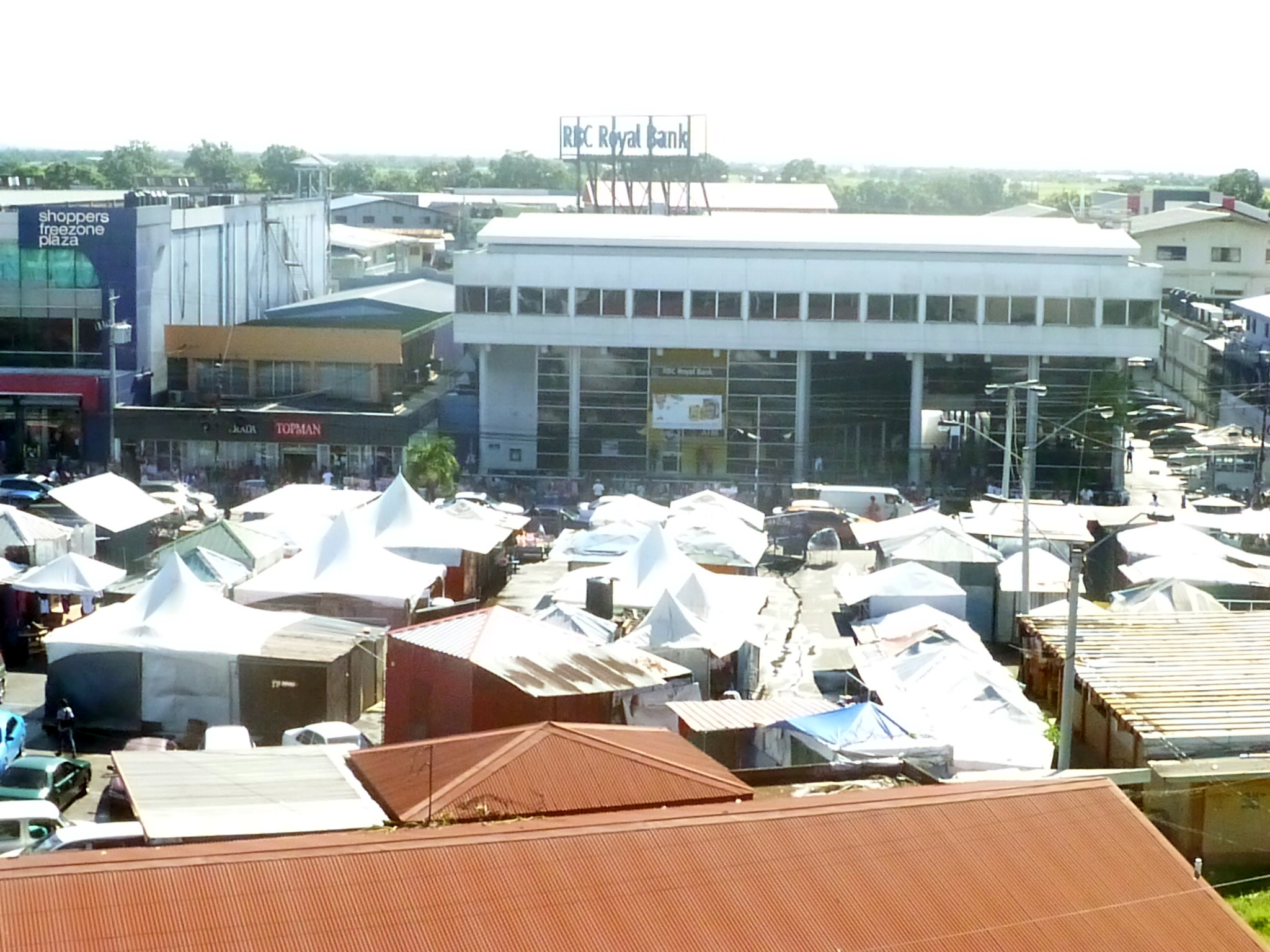 Chaguanas Main Streeet and market, Chagunas, Trinidad and Tobago.